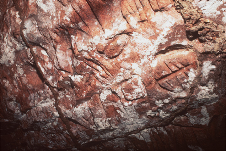 runas en Paraguay